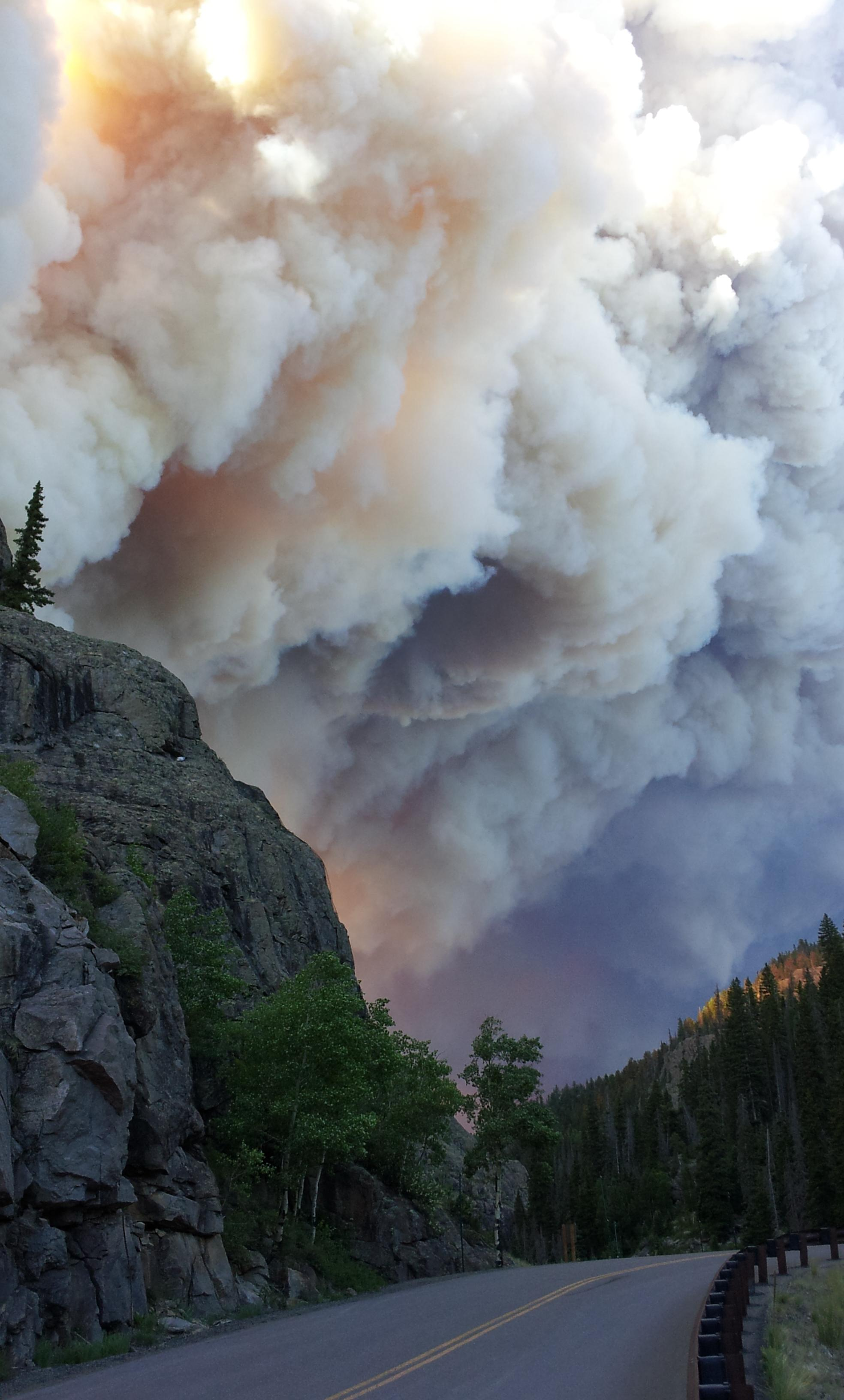 Smoke plume during West Fork Complex wildfire